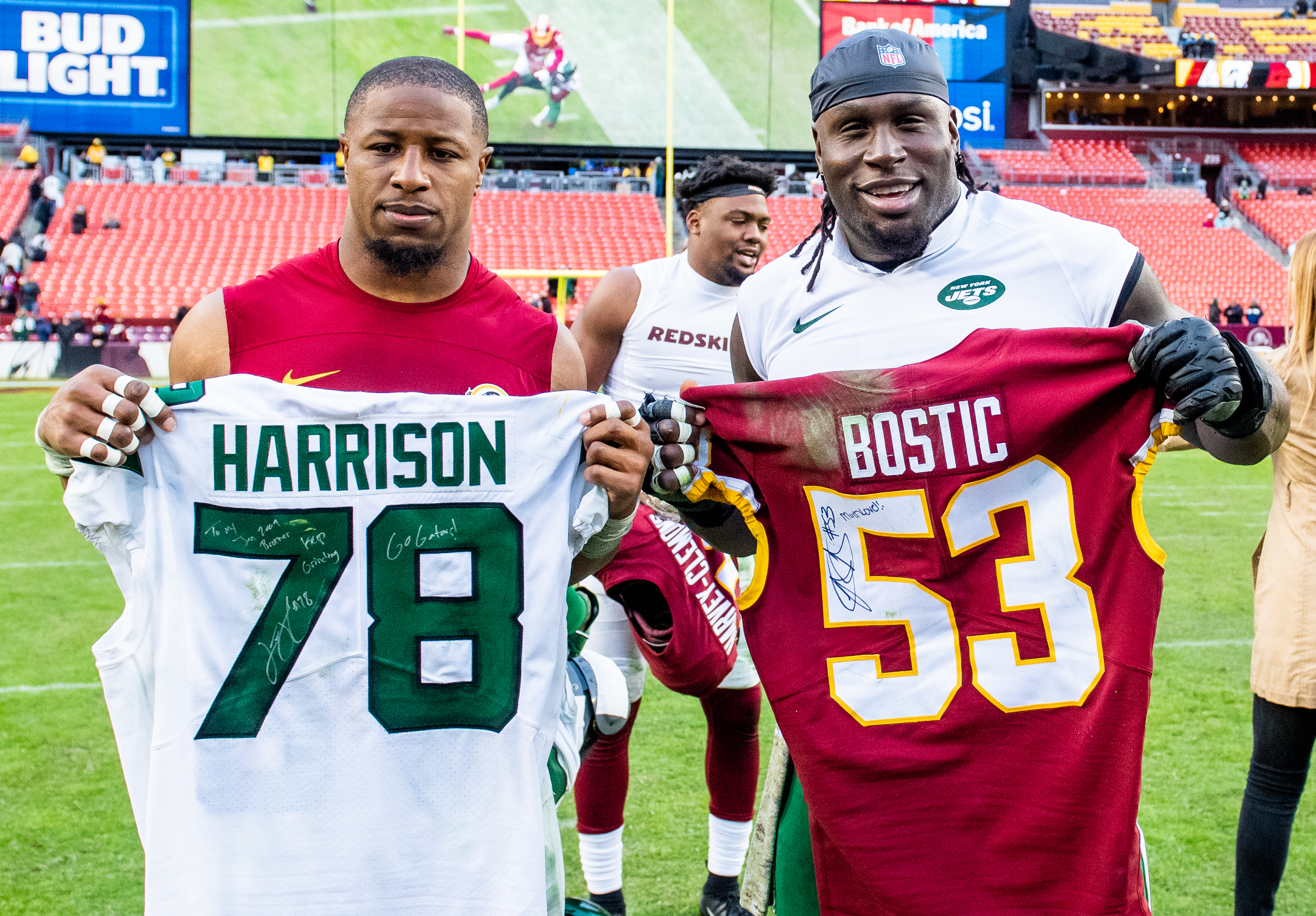 In 2019